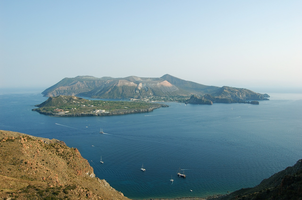 Vulcano Island with the peninsula of Vulcanello from the south of Lipari Island